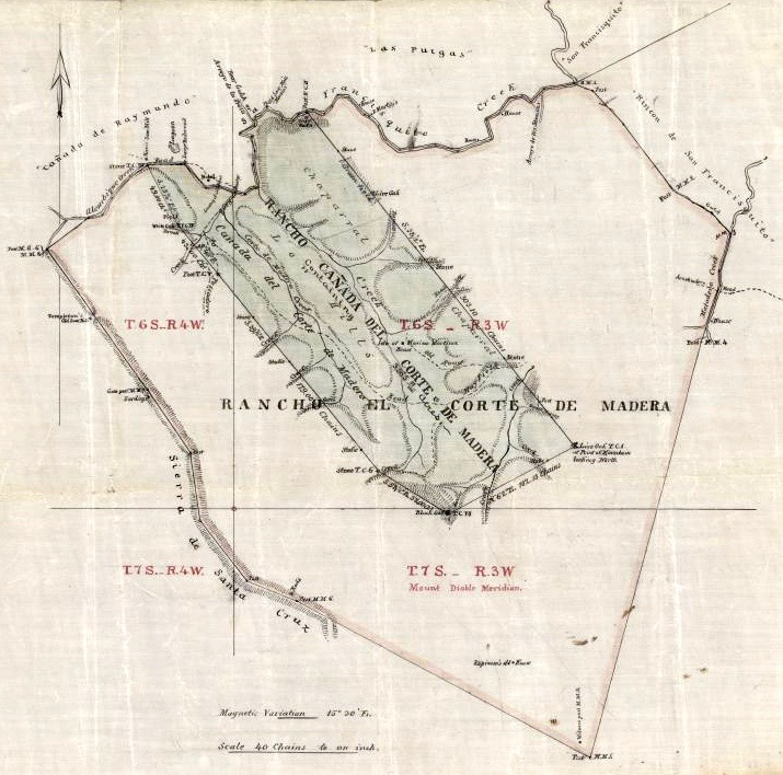 Surveyed map of 1852